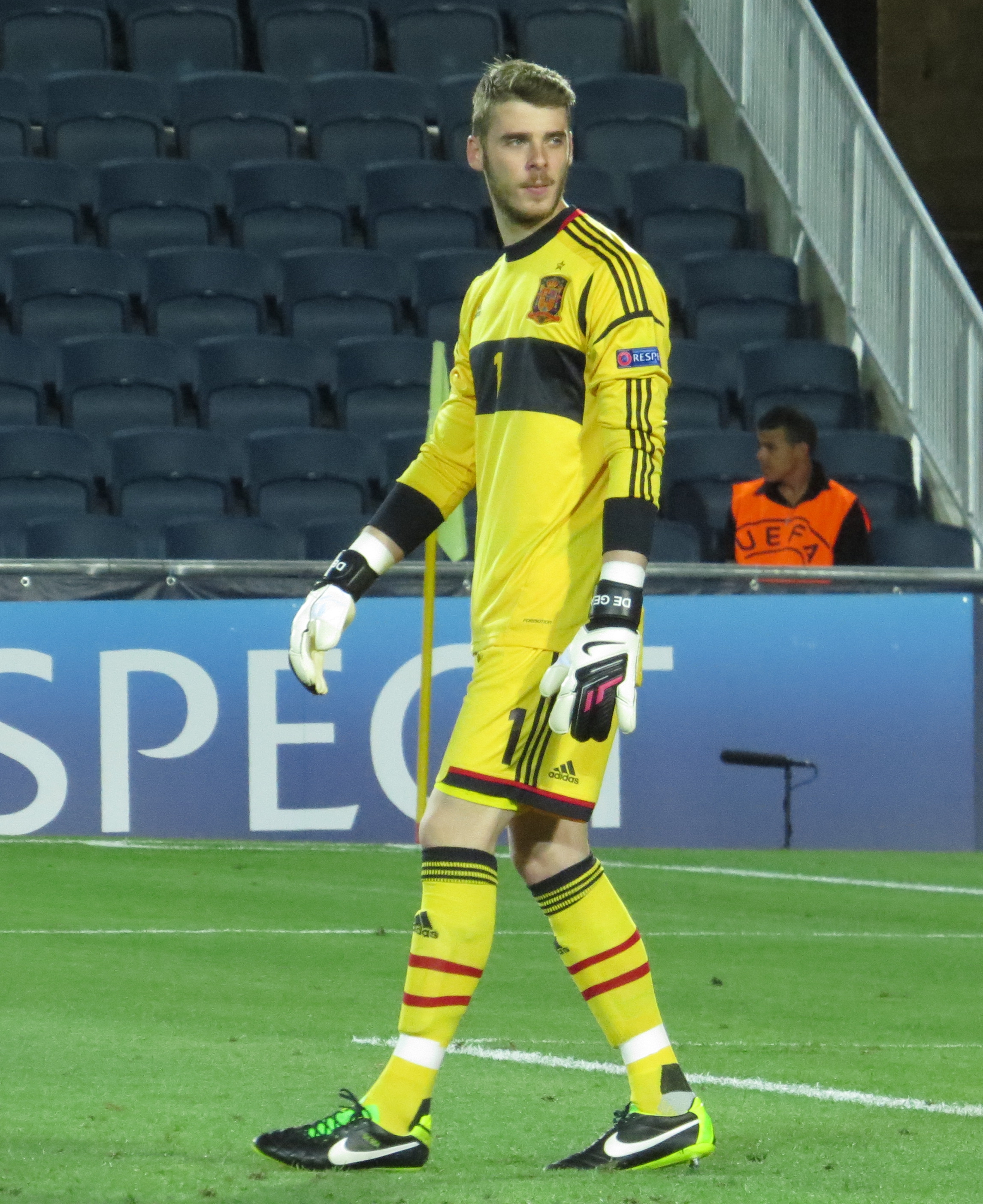 David De Gea playing for Spain U-21.